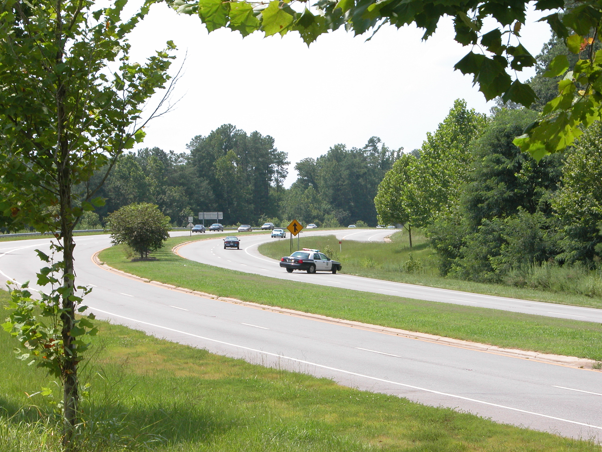 A City of Chapel Hill, North Carolina police cruiser giving chase to a target motorist on US 15-501.